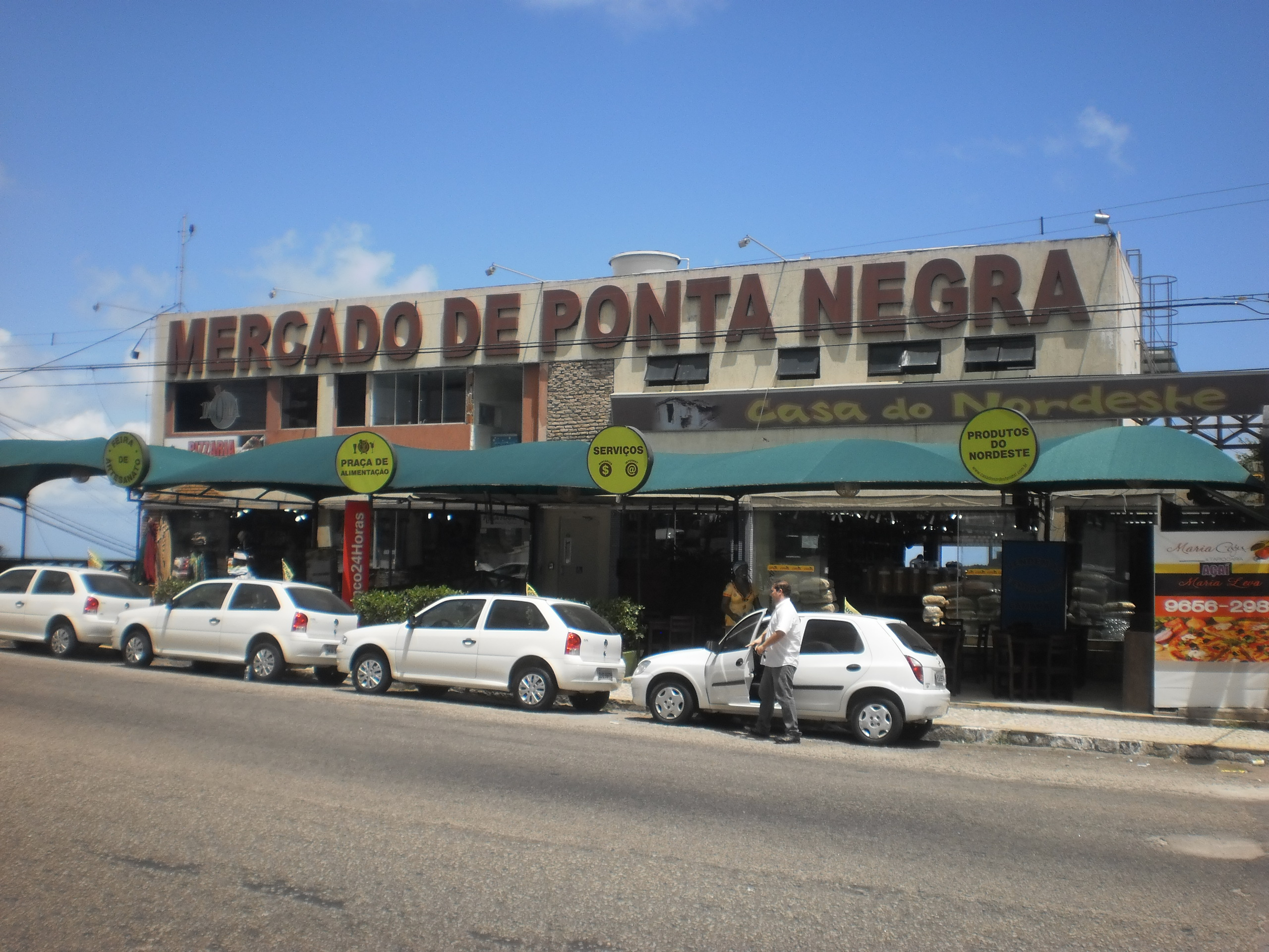 Market of Ponta Negra in the neighborhood namesake in Natal, capital of Rio Grande do Norte state (Brazil).